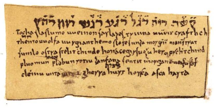 Manuscript of the Althochdeutsches Schlummerlied as published by Zappert (1859). Allegedly a 9th or 10th century manuscript, but widely considered a forgery.